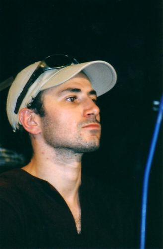 Stefan Valdobrev - Bulgarian actor, singer and composer